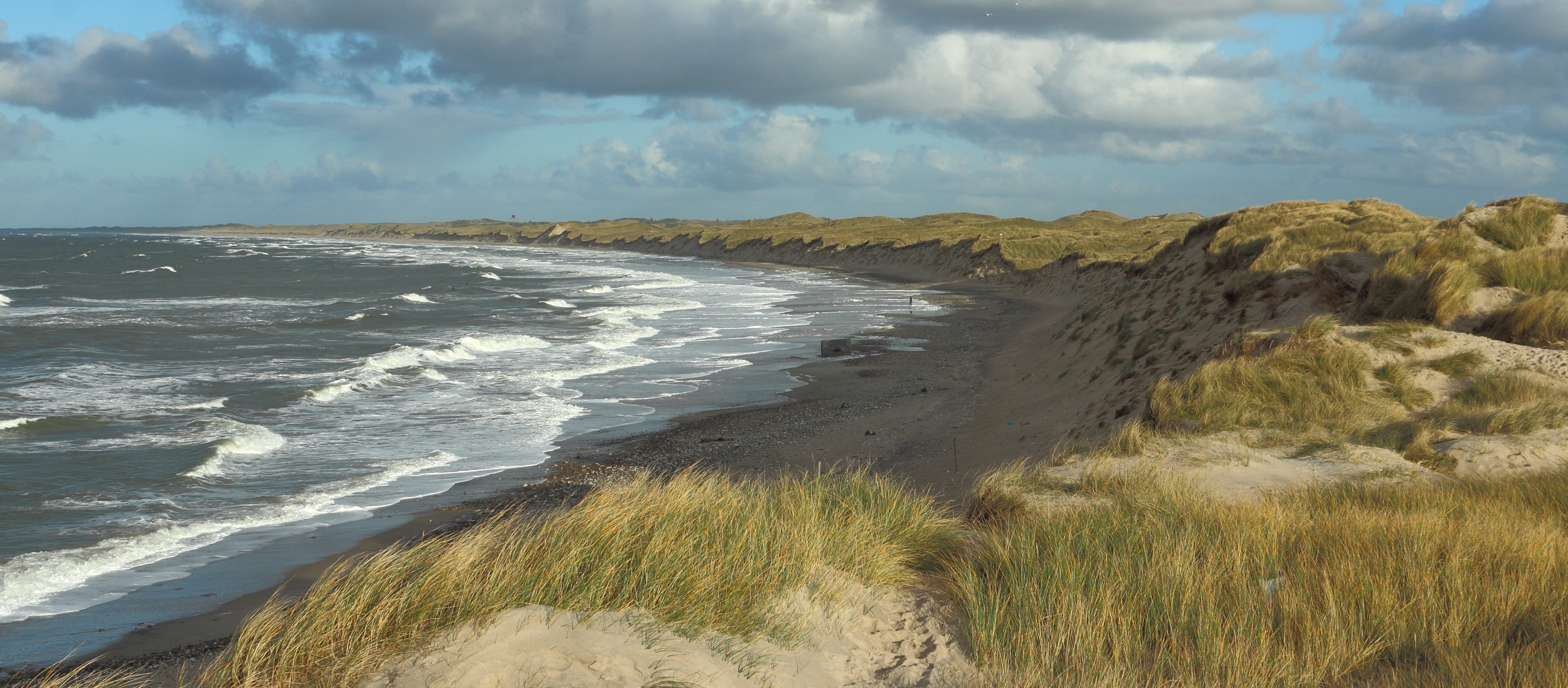 North Sea coastline at Nørre Vorupør, Denmark.